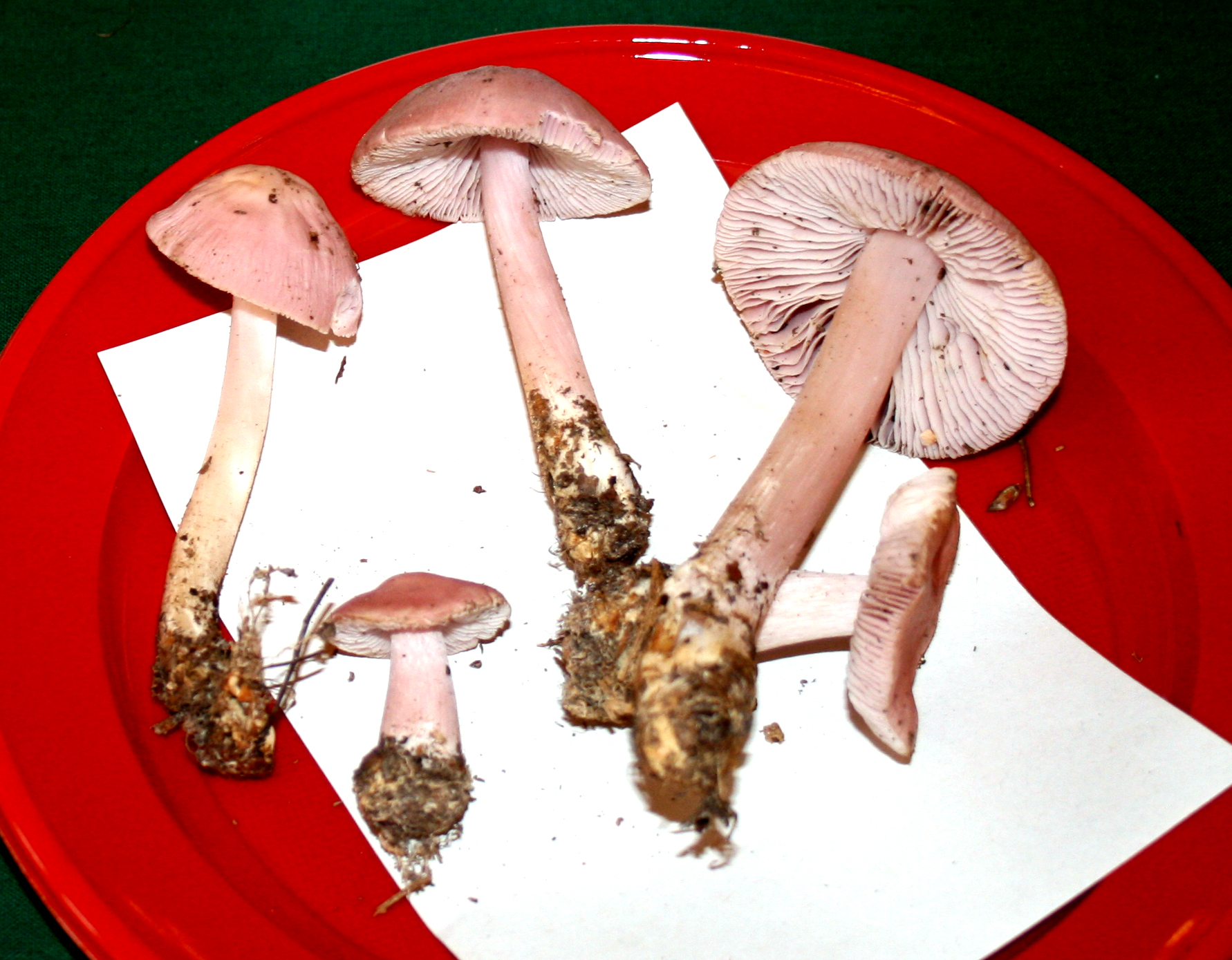 Mycena pura on Prague international mushroom exhibition 2008, Czech Republic